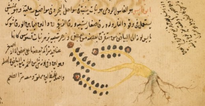 Part of a page, of an Arabic manuscript about plants of unknown author, including the description and a drawing of the al-ghasul ar-rumi (Hippophae rhamnoides L.)